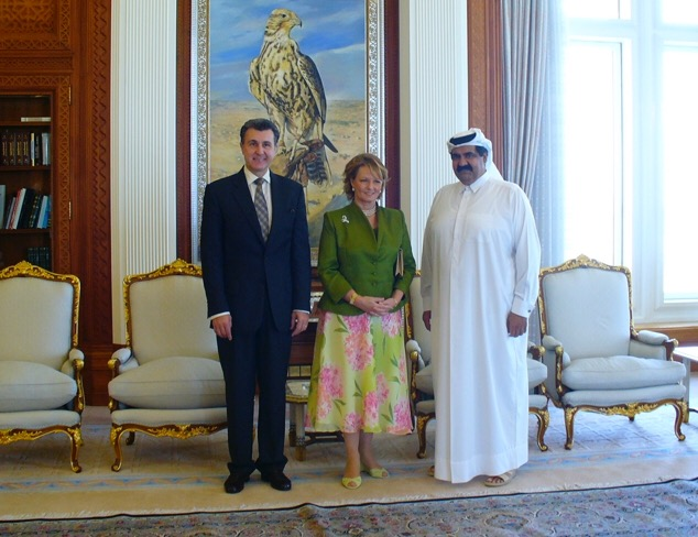 The Crown Princess Couple of Romania with The Emir of Qatar at the Emir Diwan (The Palace of the Emir) in 2009